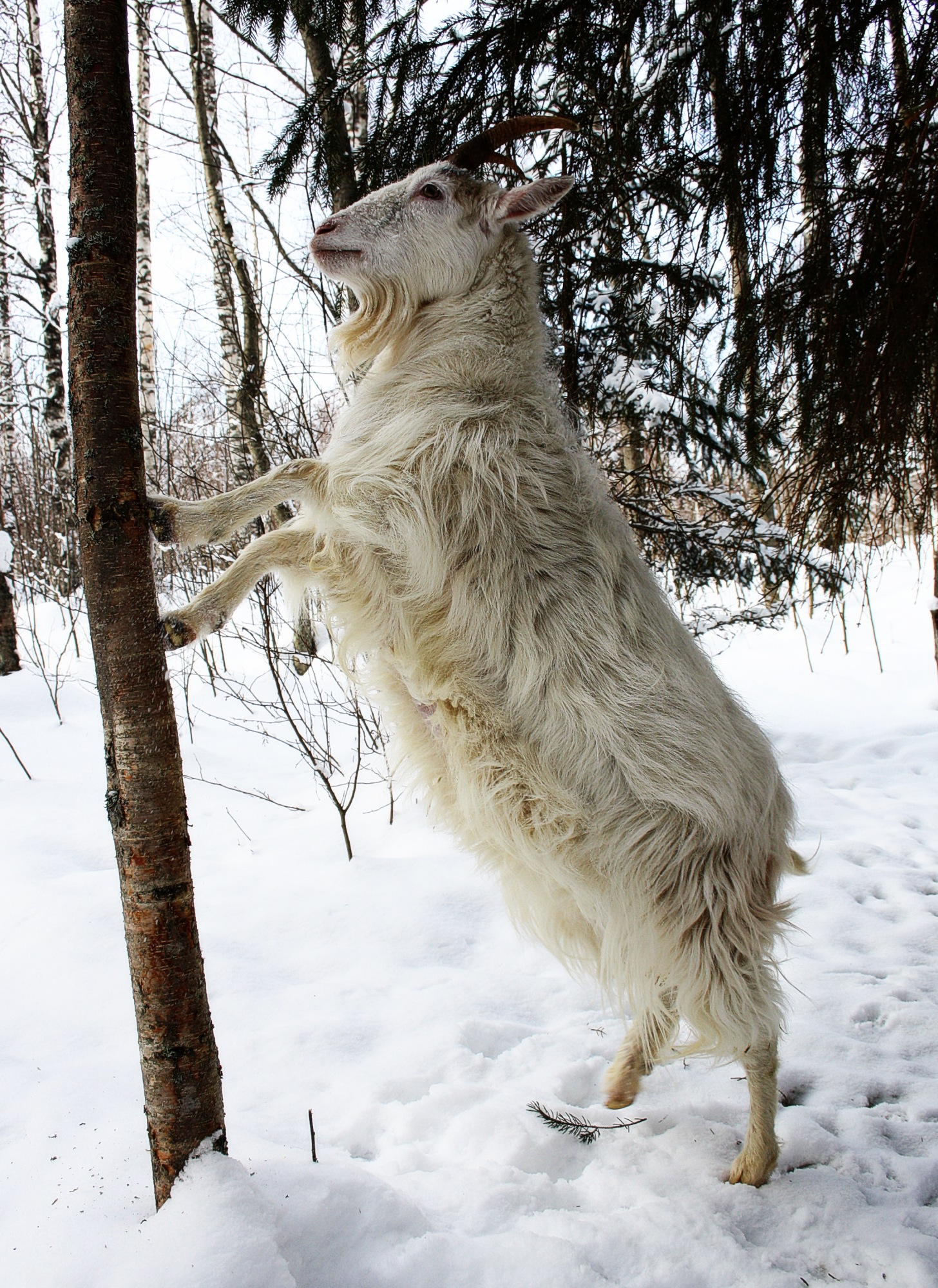 A Finnish Landrace (Suomenvuohi) goat in winter.